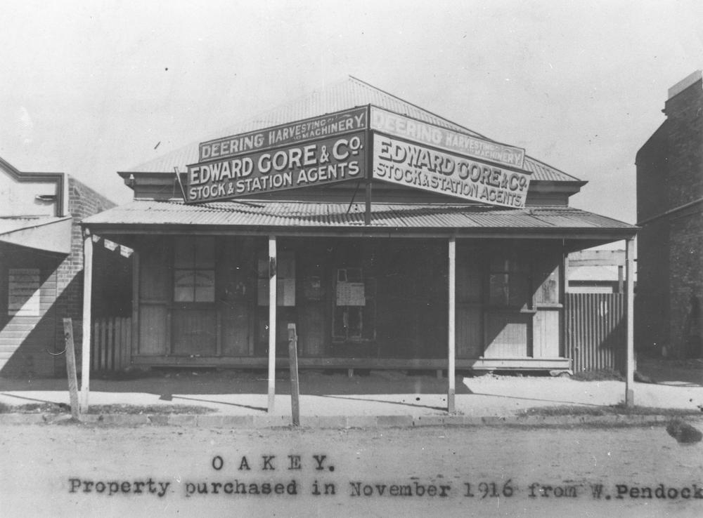 Queensland National Bank in Oakey, 1916 Caption reads: Property purchased in November 1916 from W. Pendock.